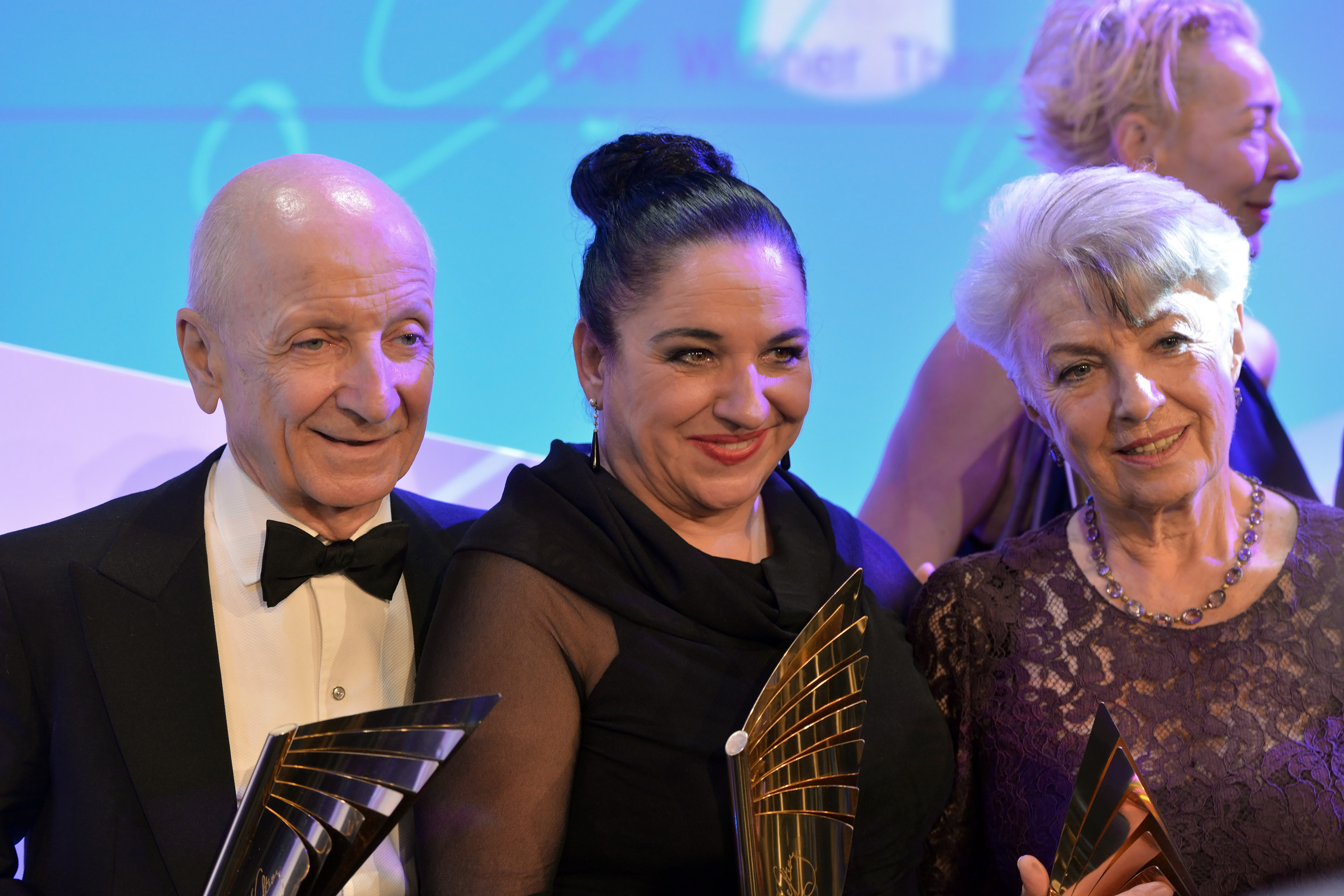 Peter Matić, Maria Happel and Nicole Heesters - Nestroy Theatre Awards 2014 at Wiener Stadthalle (Vienna, Austria).